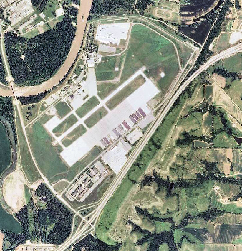 USGS digital orthophoto of Marshall Army Airfield in Kansas